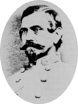 Brig. Gen. James Cantey, Confederate States Army